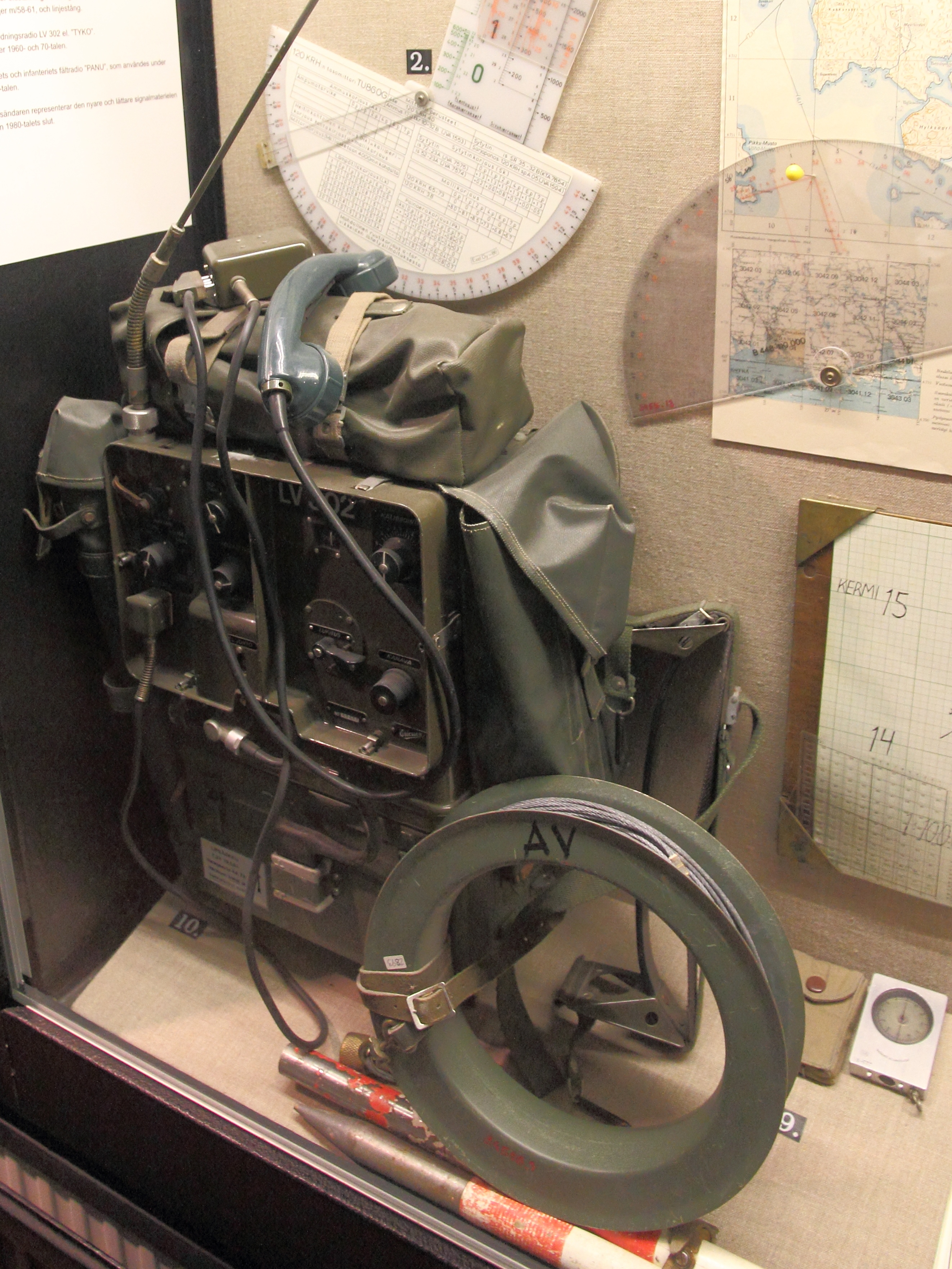 Finnish VR-3B (LV 302) "Tyko" artillery radio. Bottom right includes artillery fire position measuring equipment: a 50 meter wire measure, aiming circle and a marker pole. Photographed in RUK-museum in Hamina.